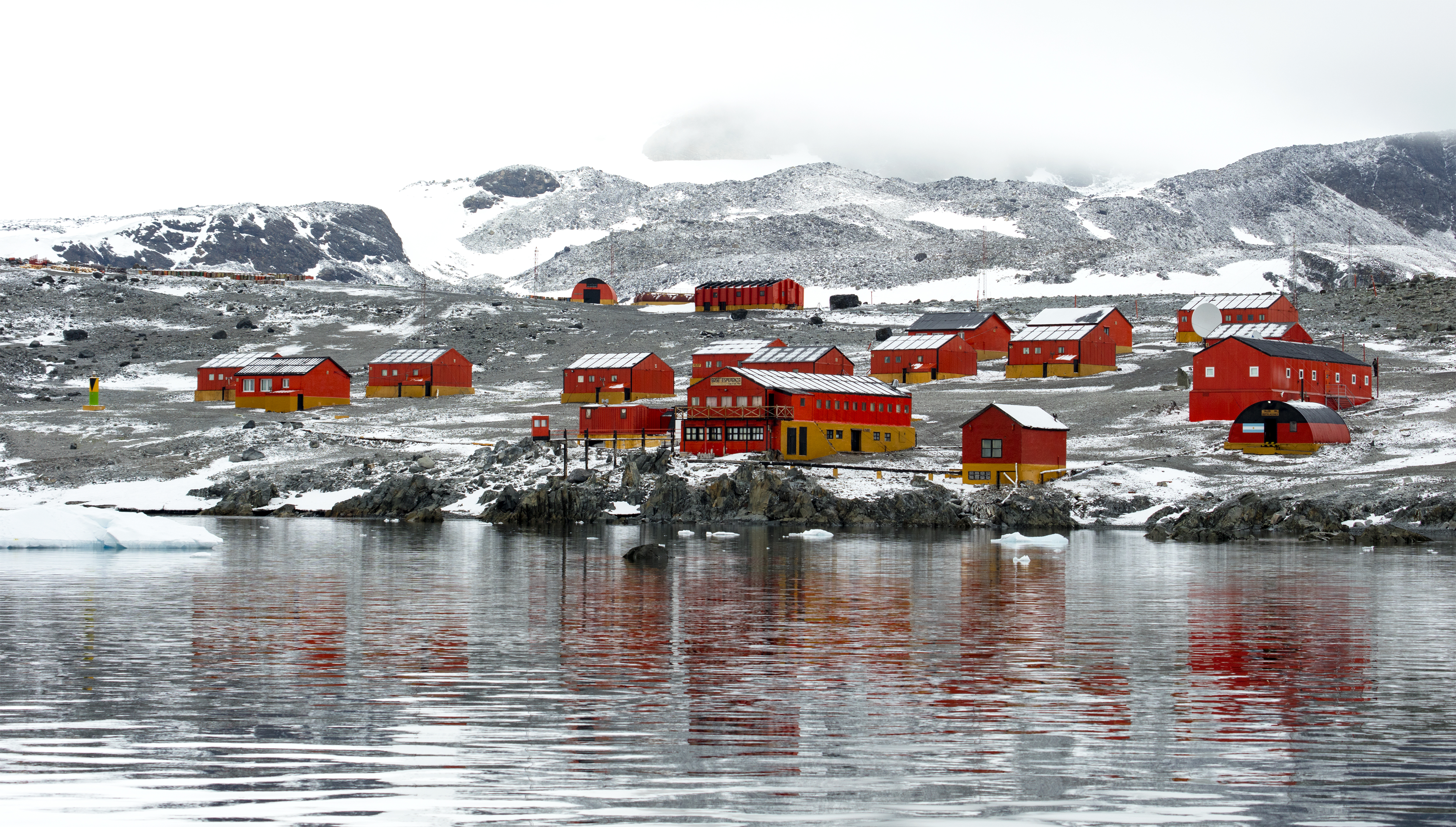 Esperanza Station, Hope Bay, Trinity Peninsula, on the northernmost tip of the Antarctic Peninsula